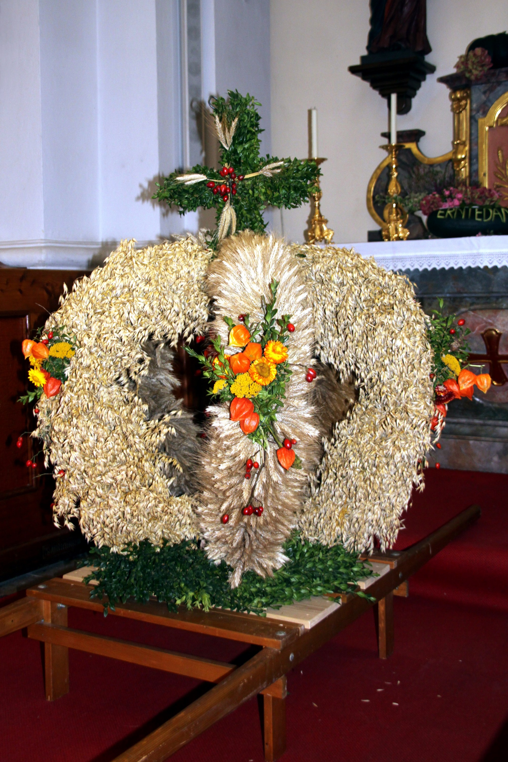 Municipality Hollenthon in Lower Austria. – The photo shows the Thanksgiving crown in the parish church Mariae Himmelfahrt in Hollenthon.